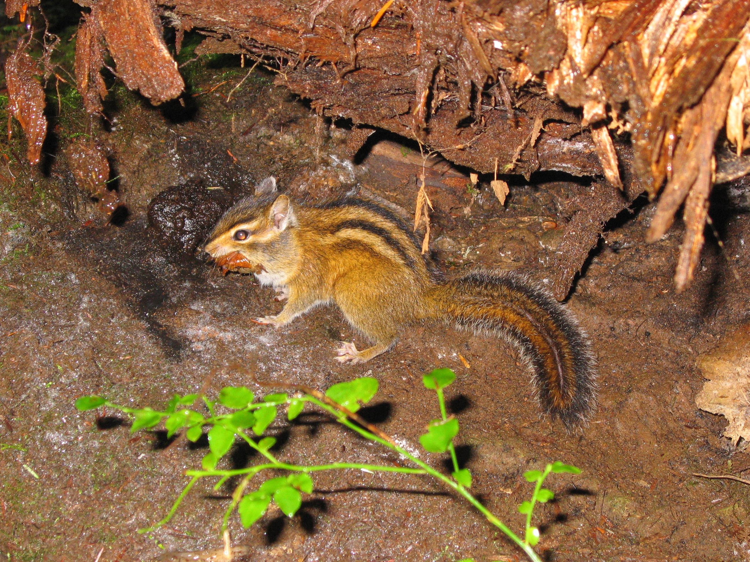 Little Chipmunk, near Lake Quinault